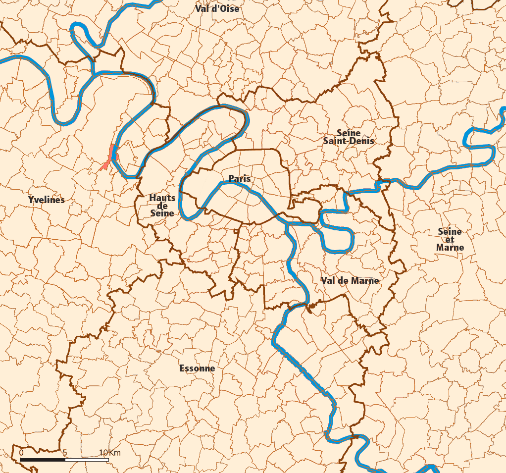 Created map myself.